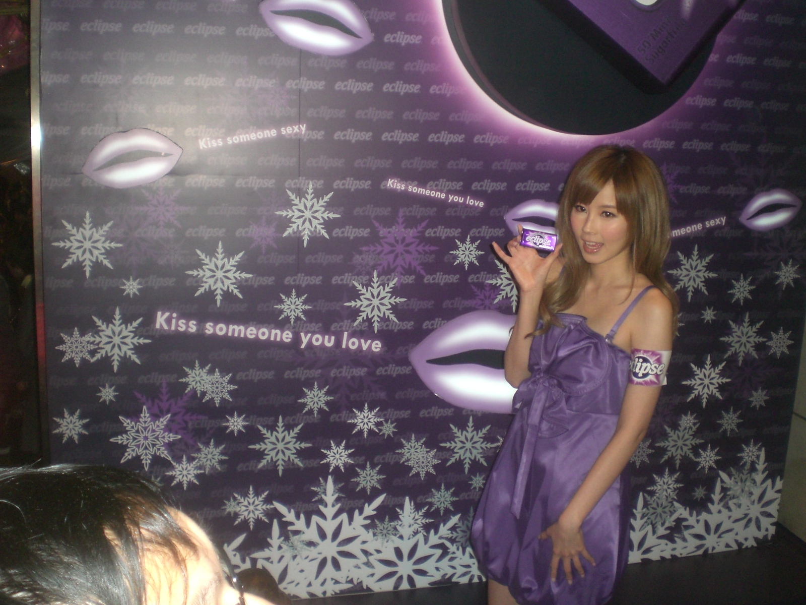 香港藝人在zh:中環蘭桂坊出席宣傳商品, 其歌迷協助造勢及保鏢工作